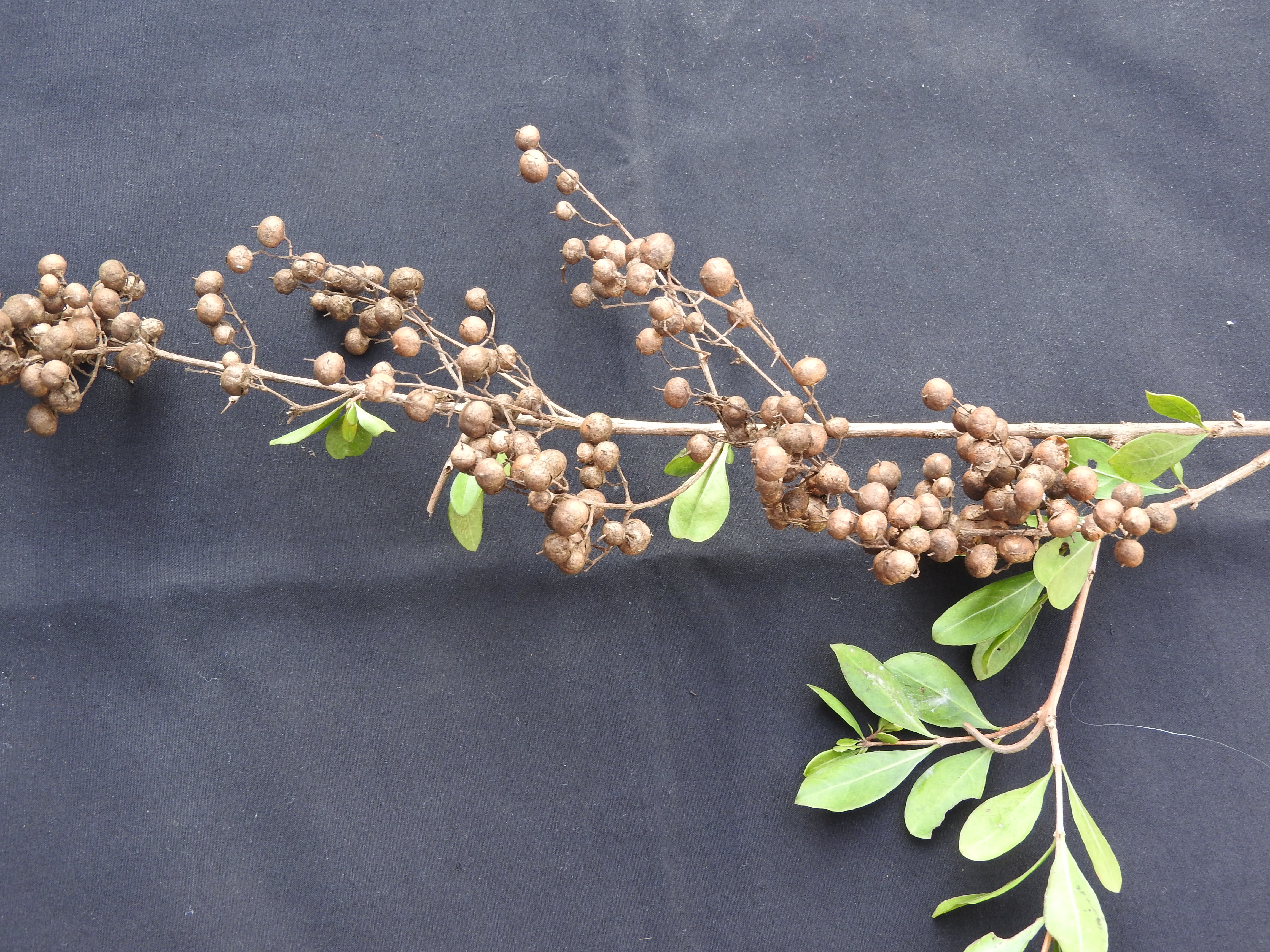 Lythraceae-henna,maruthani;shrub,fruit copious.